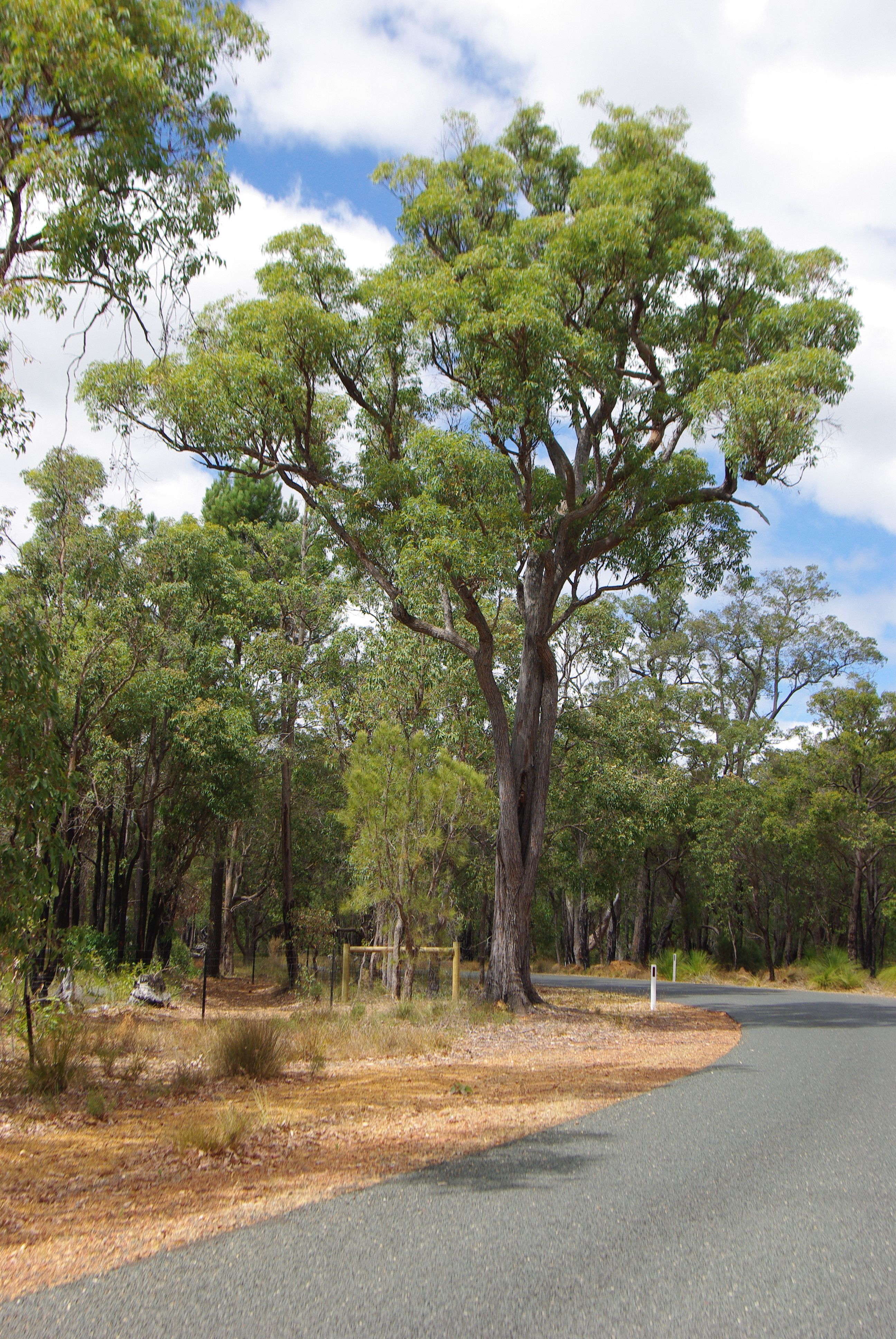 Jarrah tree, Glen Forrest, Western Australia